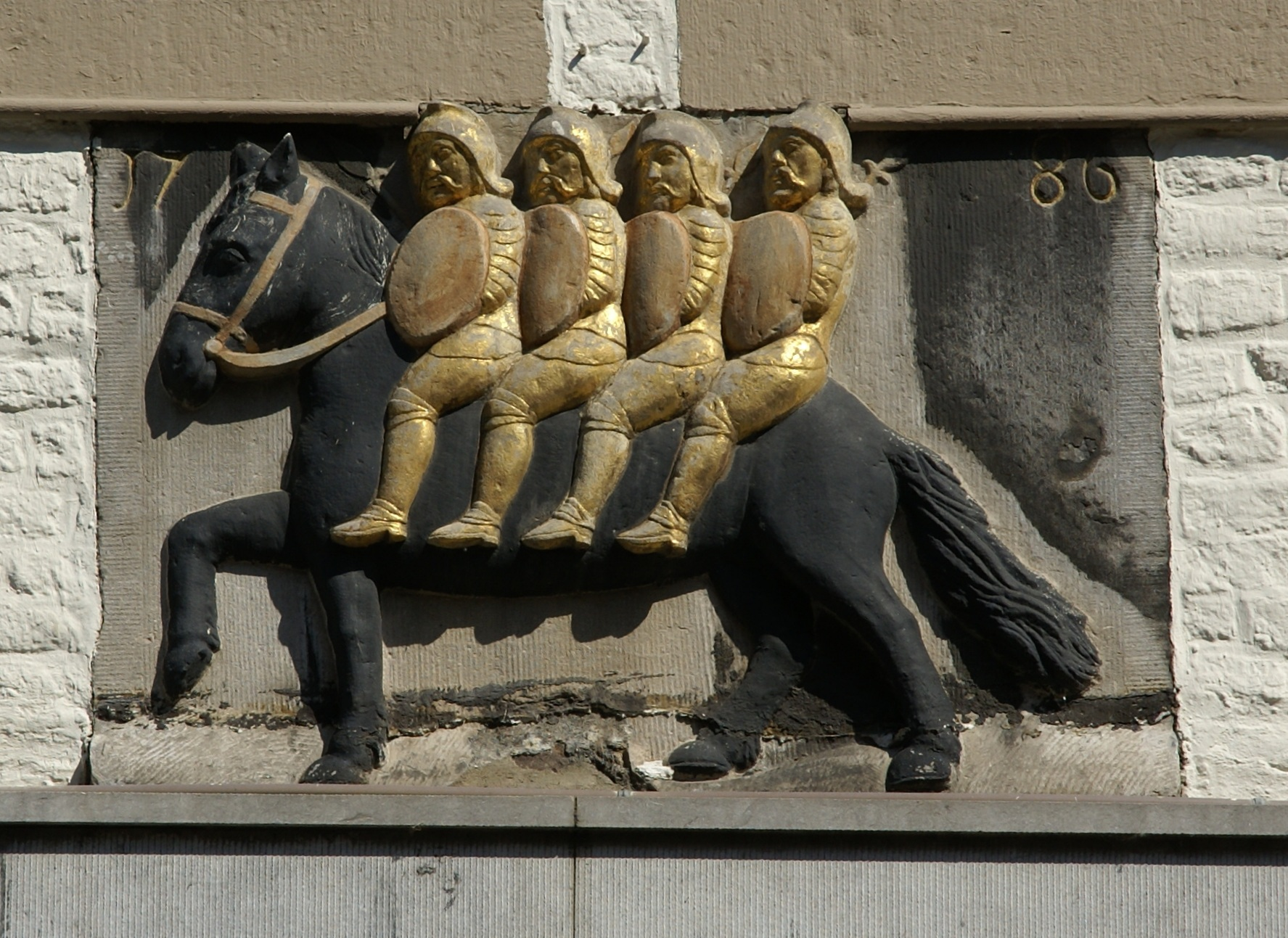 National monument no. 26994 - Grote Gracht 42, Maastricht, The Netherlands. Gable stone dating from 1786.